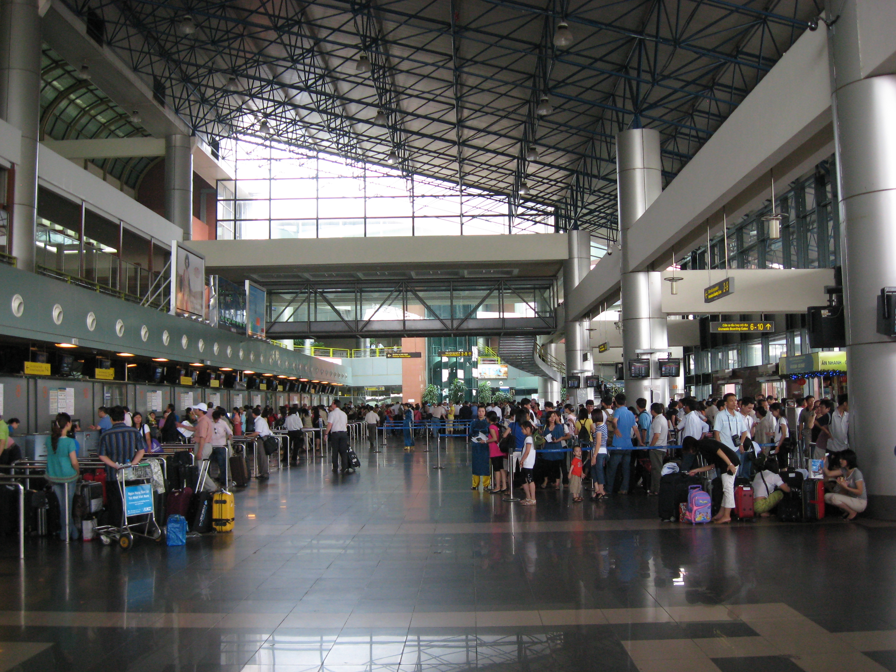 Check-in area at Noi Bai Int'l Airport, Hanoi, Vietnam.